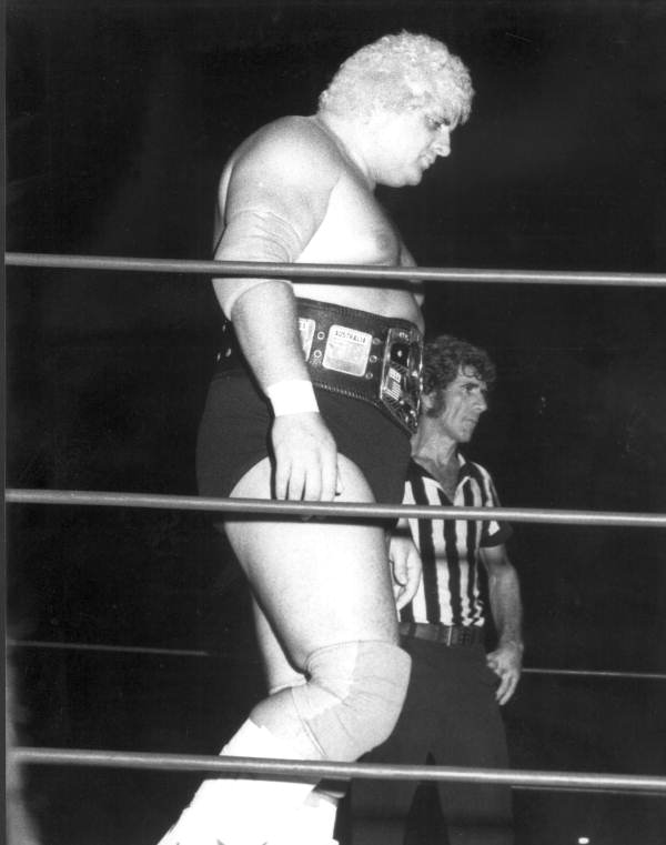 Dusty Rhodes as NWA World Heavyweight Champion